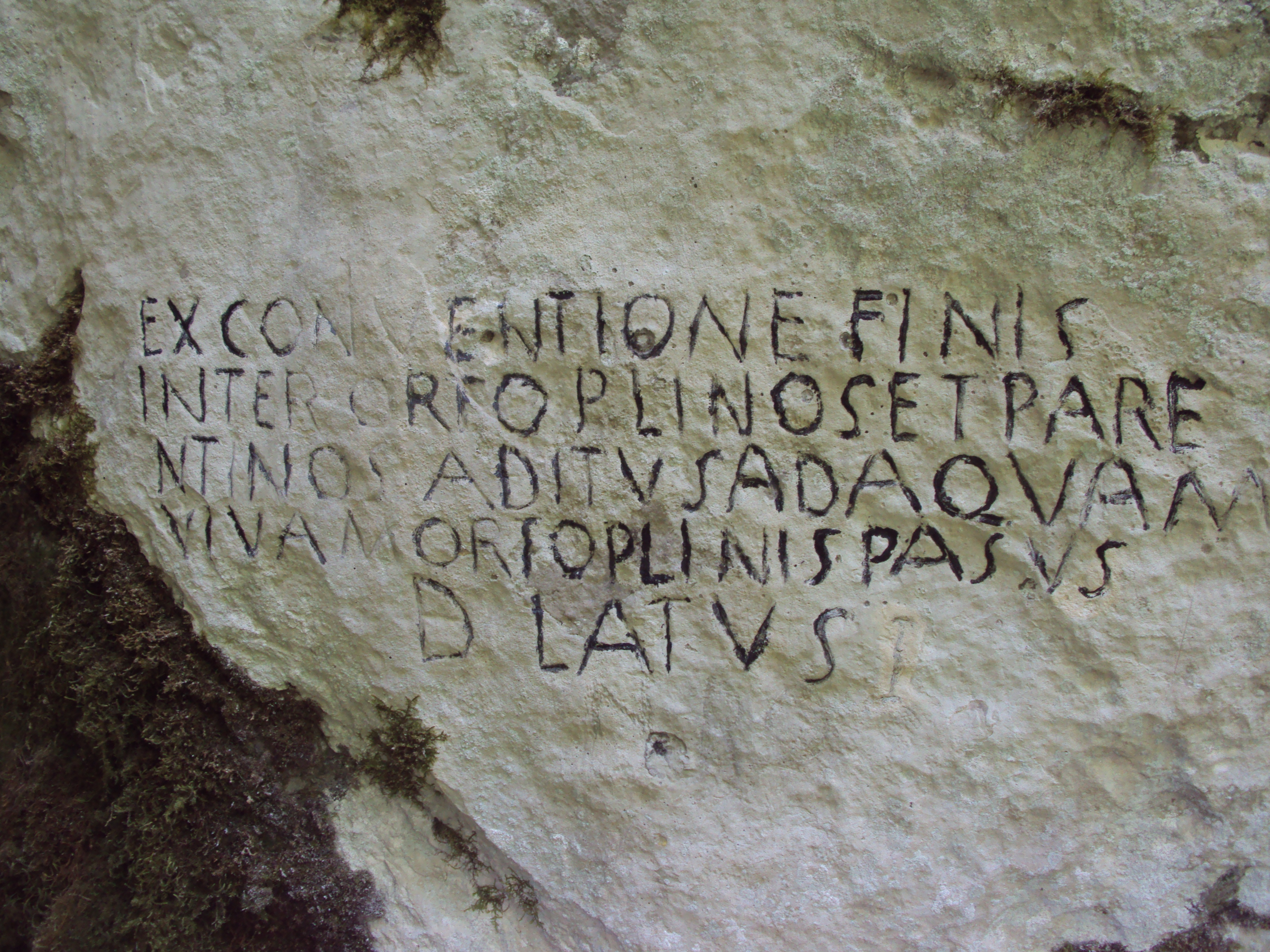 Written stone in Latin from the 4th century. Croatia